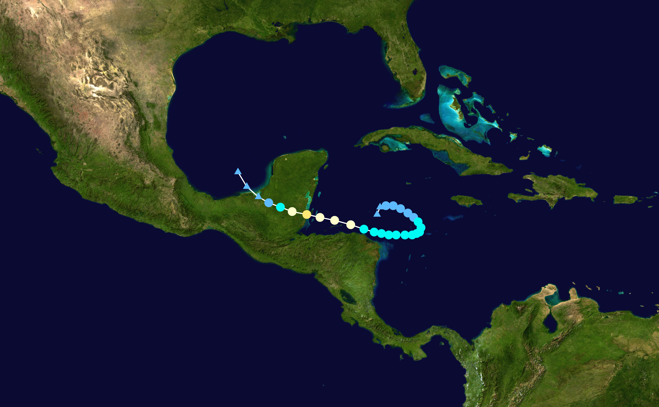 Track map of Hurricane Richard of the 2010 Atlantic hurricane season. The points show the location of the storm at 6-hour intervals. The colour represents the storm's maximum sustained wind speeds as classified in the Saffir–Simpson scale (see below), and the shape of the data points represent the nature of the storm, according to the legend below. Saffir–Simpson scale Tropical depression≤38 mph≤62 km/h Category 3111–129 mph178–208 km/h Tropical storm39–73 mph63–118 km/h Category 4130–156 mph209–251 km/h Category 174–95 mph119–153 km/h Category 5≥157 mph≥252 km/h Category 296–110 mph154–177 km/h Unknown Storm type Tropical cyclone Subtropical cyclone Extratropical cyclone / Remnant low / Tropical disturbance / Monsoon depression